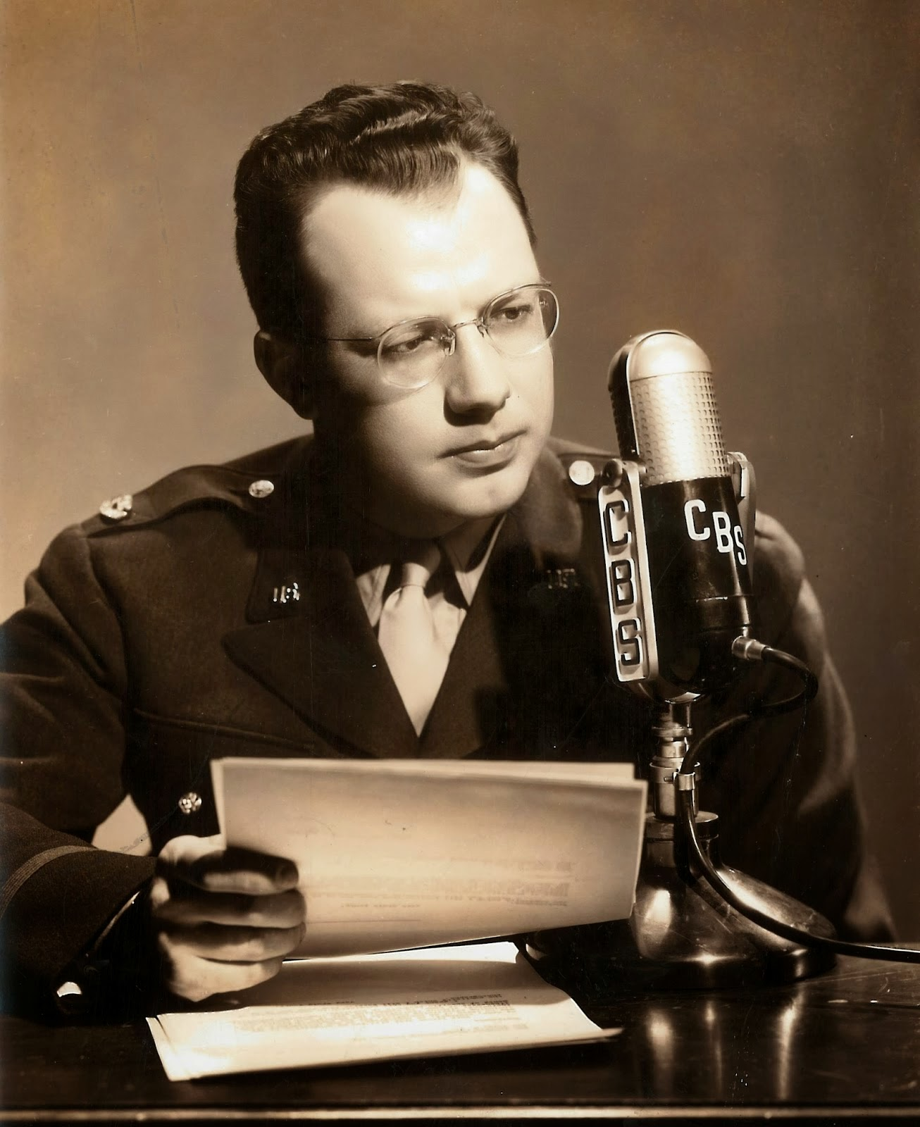 CBS war correspondent Bill Downs sits before a microphone in London, 1942.